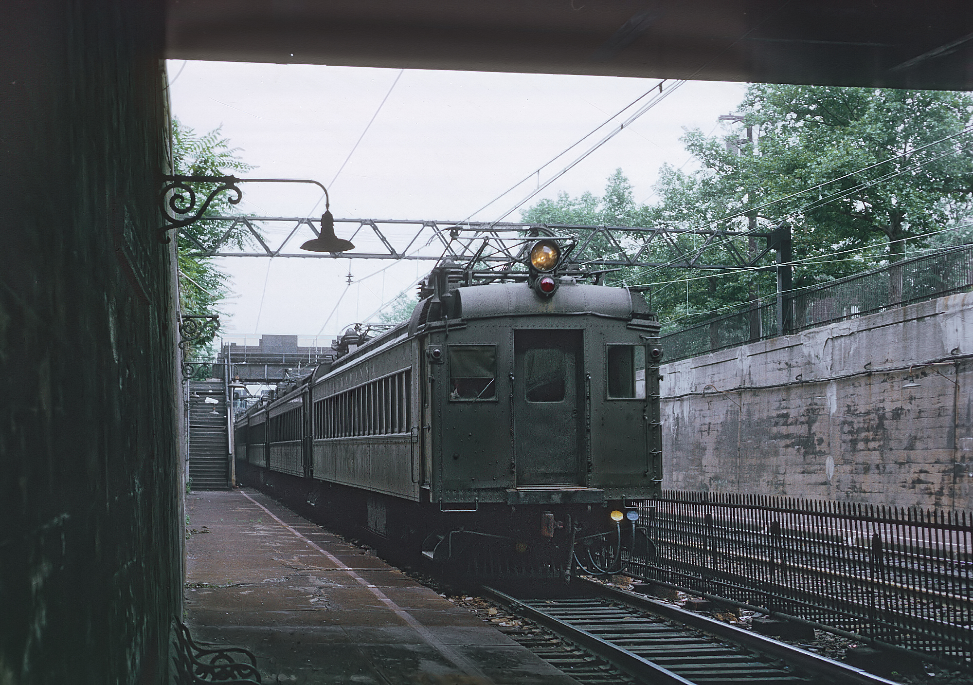 An Erie-Lackawanna commuter train at Roseville Avenue station in July 1969